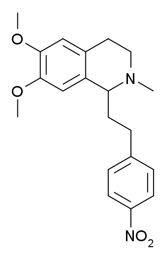 i drew this anyone can use it